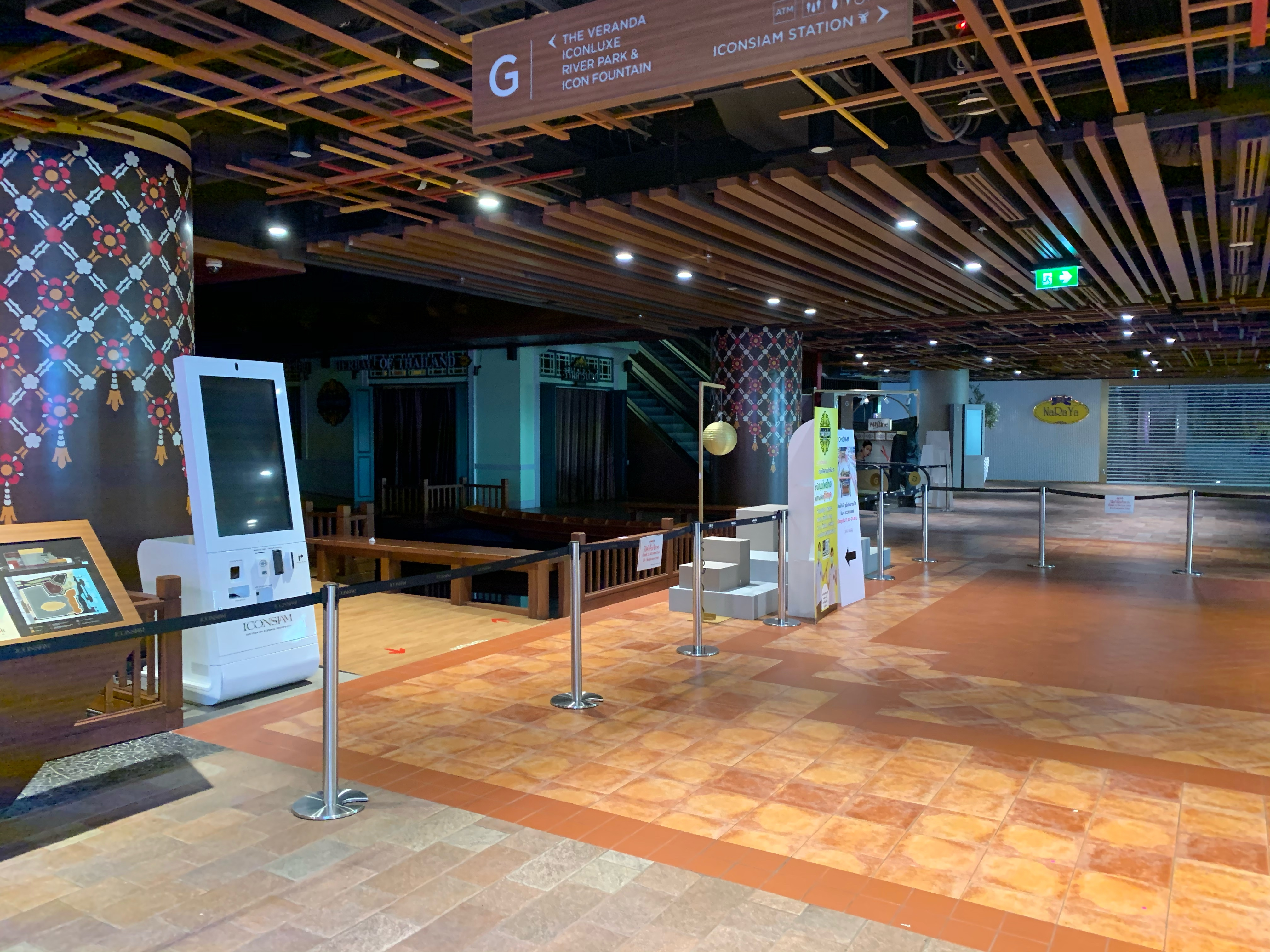 Iconsiam only opened for the sections of supermarkets, chemists, takeaway only restaurants